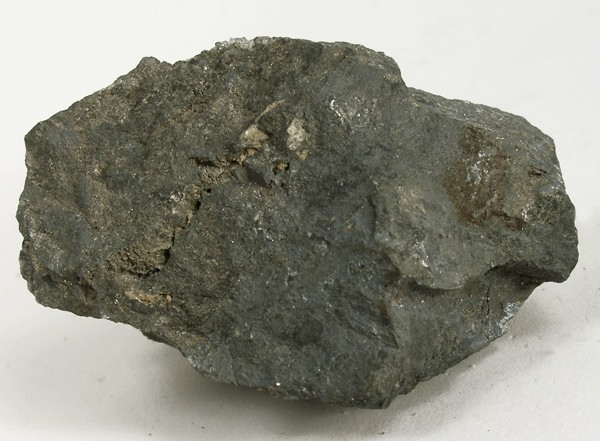 Antimony Locality: Tom Moore Mine (Erskine Creek Mine), Erskine Creek deposits, Erskine Creek, Erskine Creek District, Kern County, California, USA (Locality at ) Size: 5.1 x 3.3 x 2.7 cm. A rare, old specimen of solid native antimony from an uncommon California locality - the Tom Moore Mine, Erskine Creek, Kern County. The highly to moderately lustrous, mounded piece is battleship-gray. Weighs 88 grams. Ex. Giles Mead and California Institute of Technology Collections.